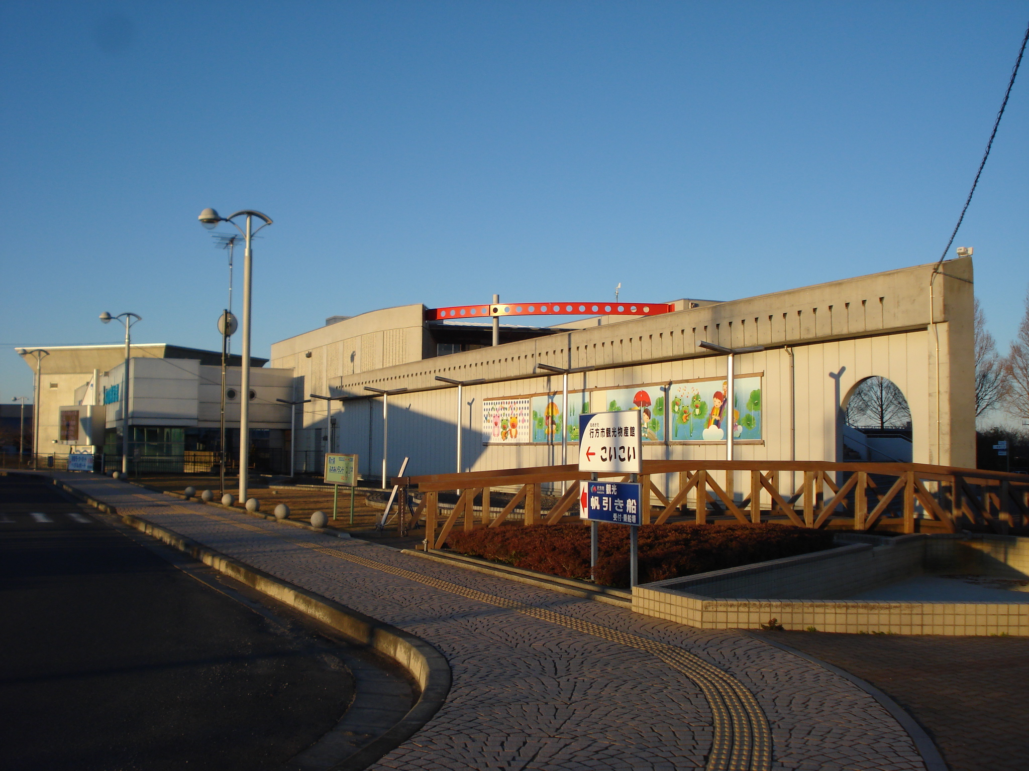 Kasumigaura Fureai Land Mizu no Kagakukan (Aqua science museum) Namegata-city, Ibaraki